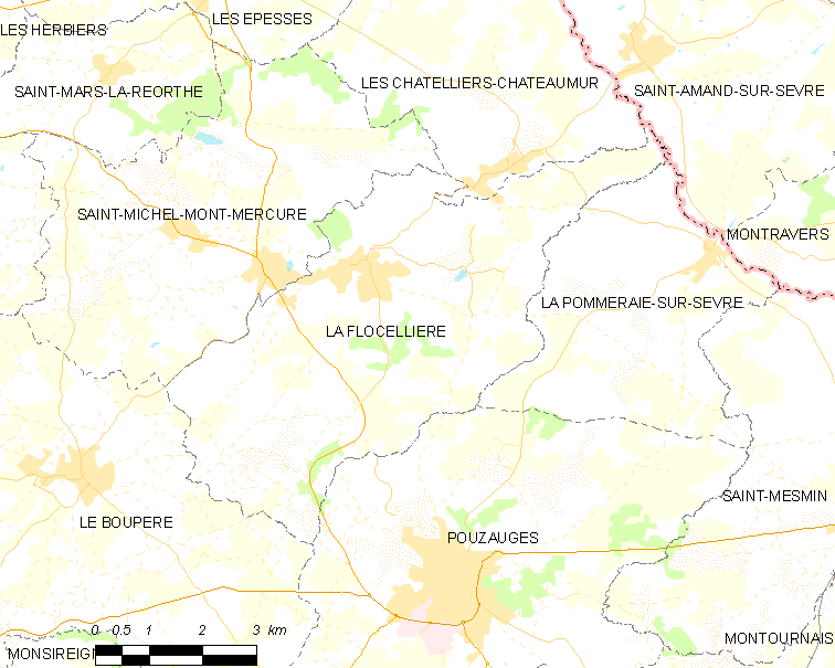 Map of French municipality La Flocellière